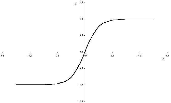 Hyperbolic tangens activation function